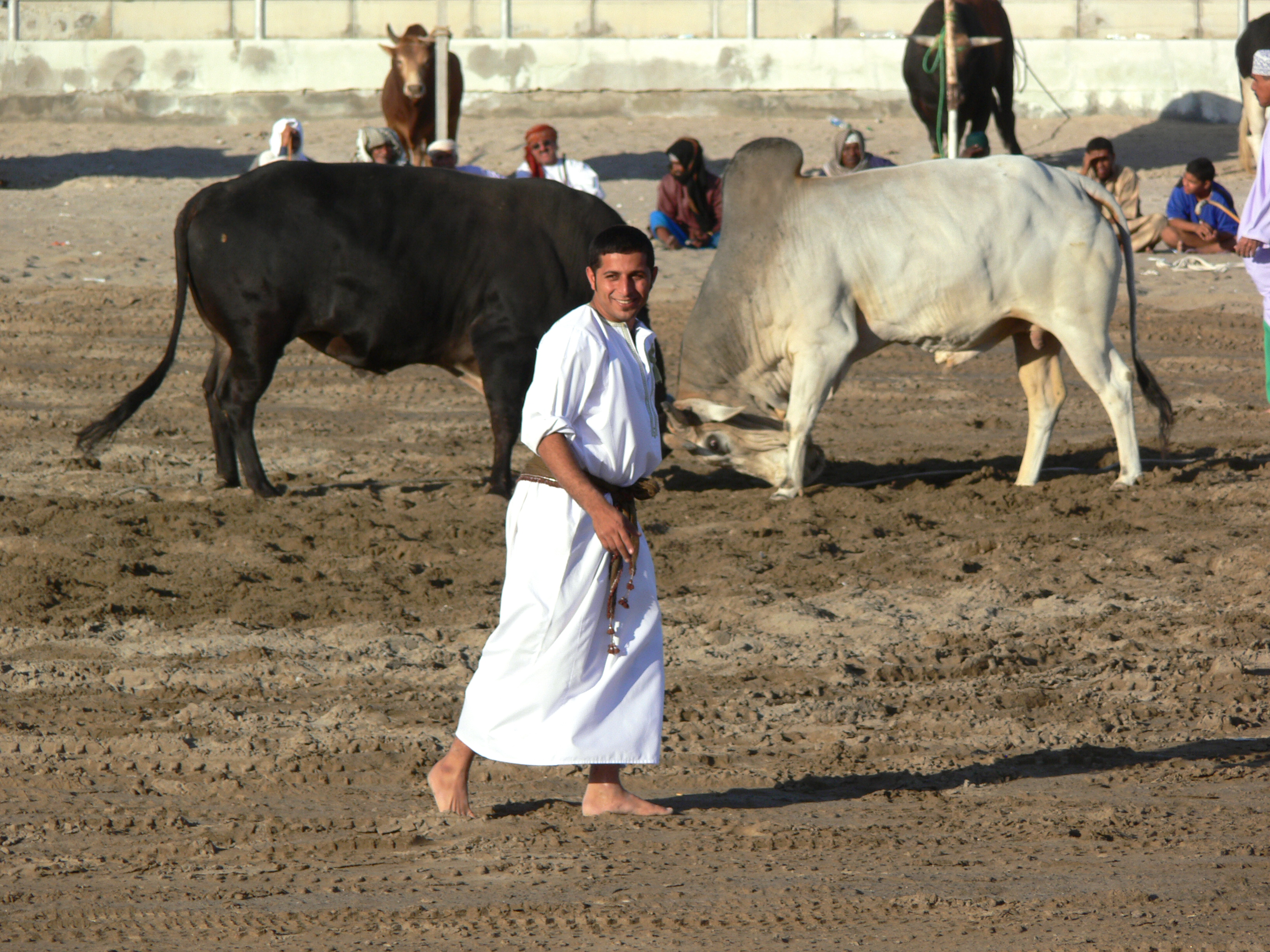 Barka (Oman). Bullfighting official - P1050462.JPG